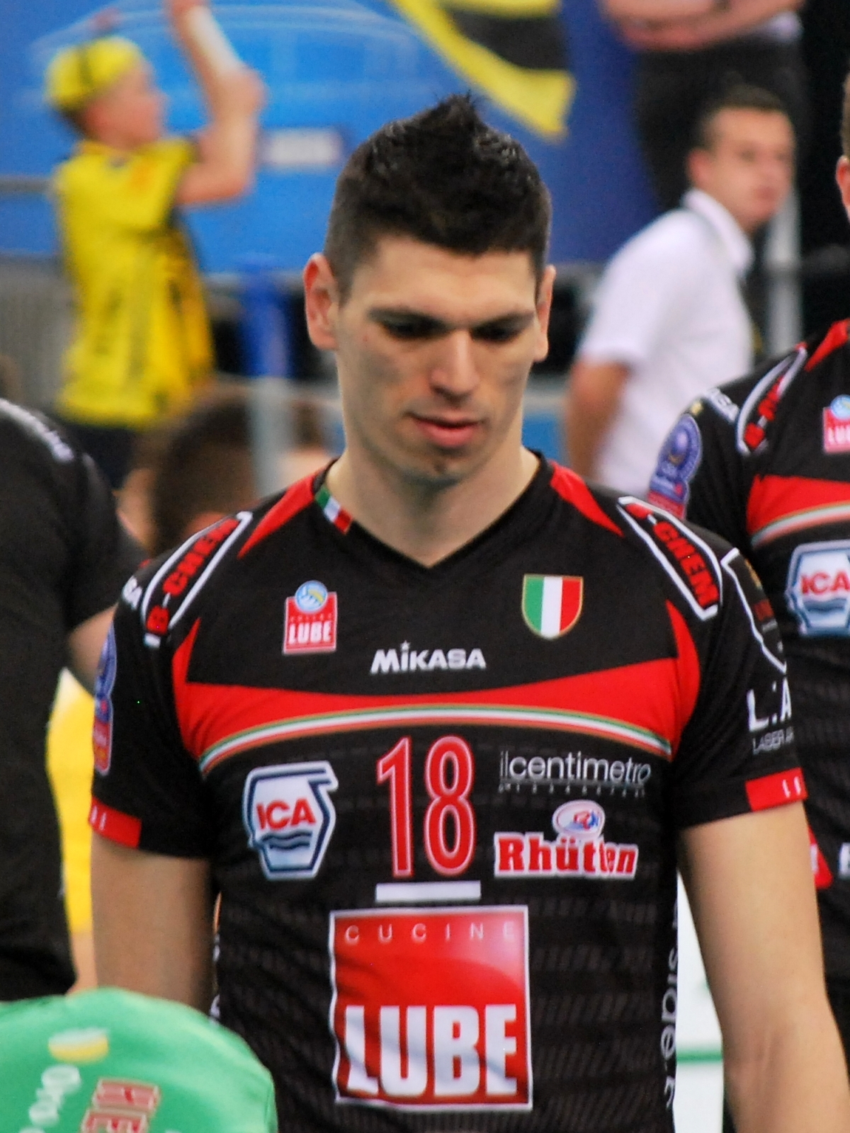 Marko Podraščanin, volleyball player from Serbia